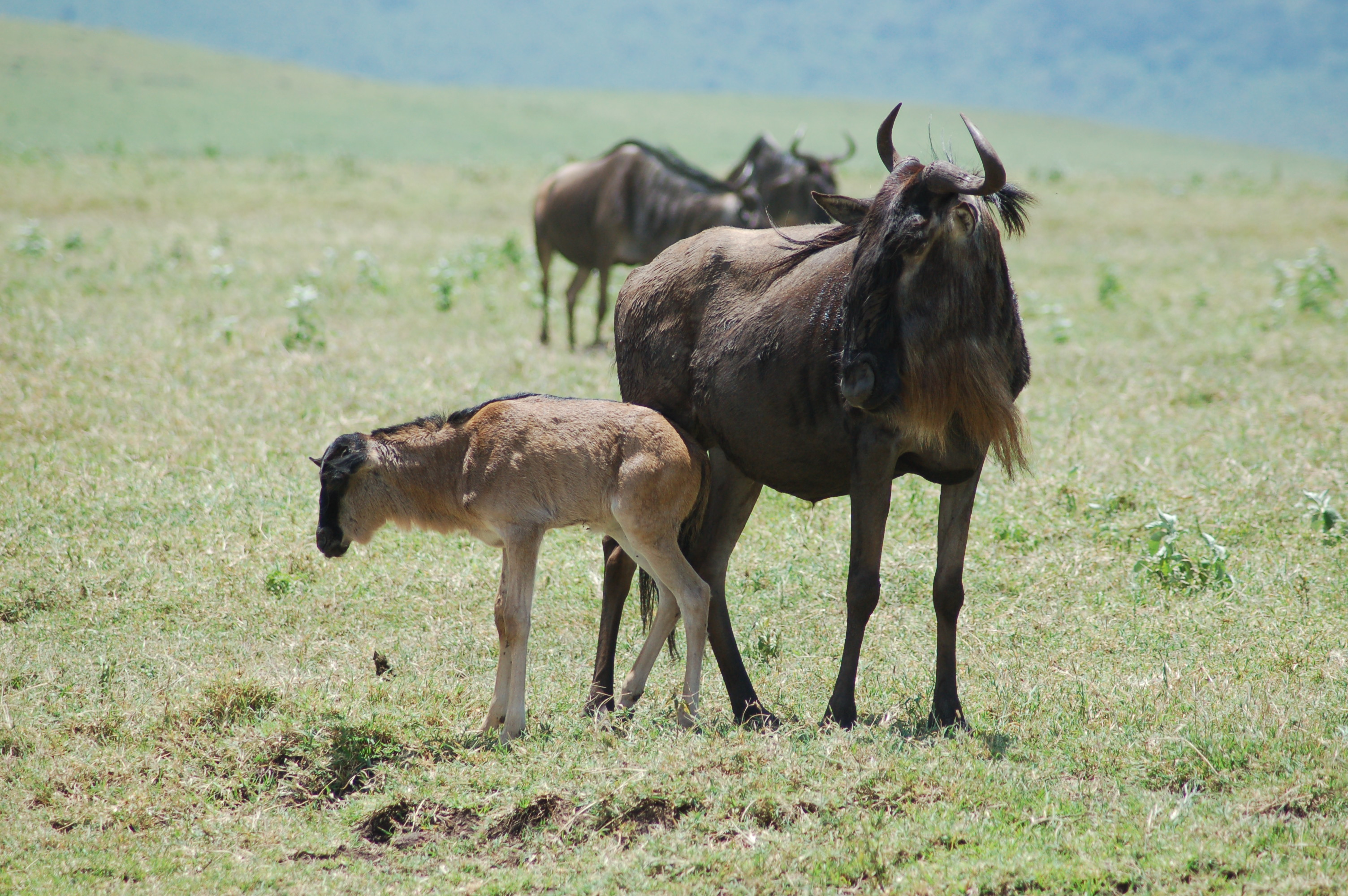 A Blue Wildebeest in Ngorongoro Crater, Tanzania. A mother with a calf are in the foreground.